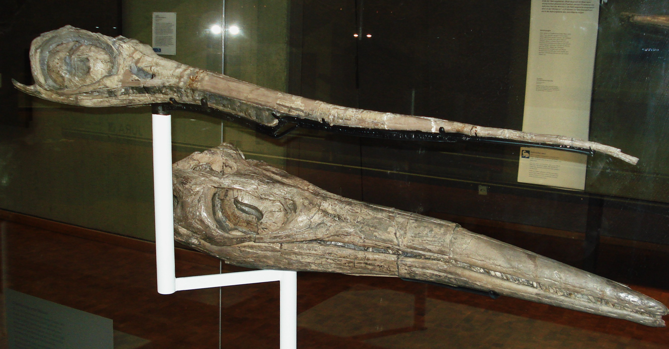 fossil of temnodontosaurus and eurhinosaurus